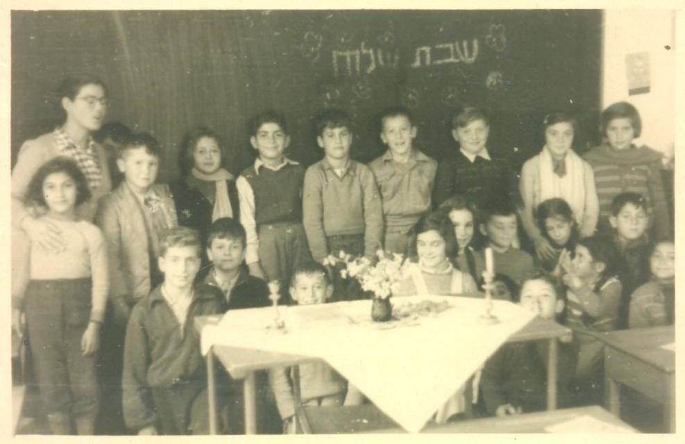 Education in Israel